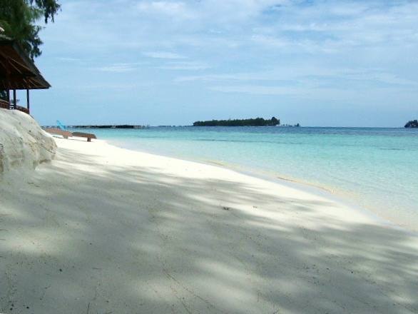 Sepa Island beach, Thousand Islands, Jakarta, Indonesia